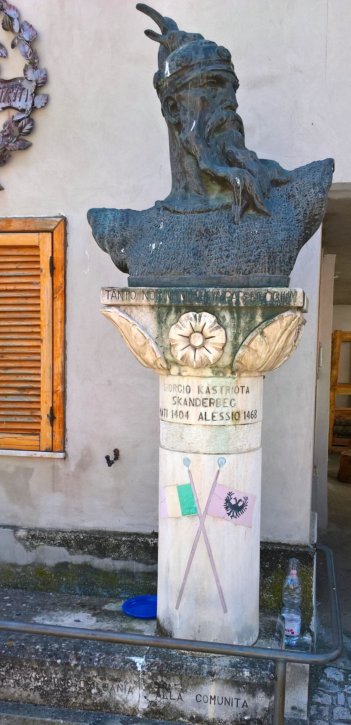 Monument of George Castriota Skanderbeg, hero of Albanian independence, in Villa Badessa, Rosciano, Pescara, Italy